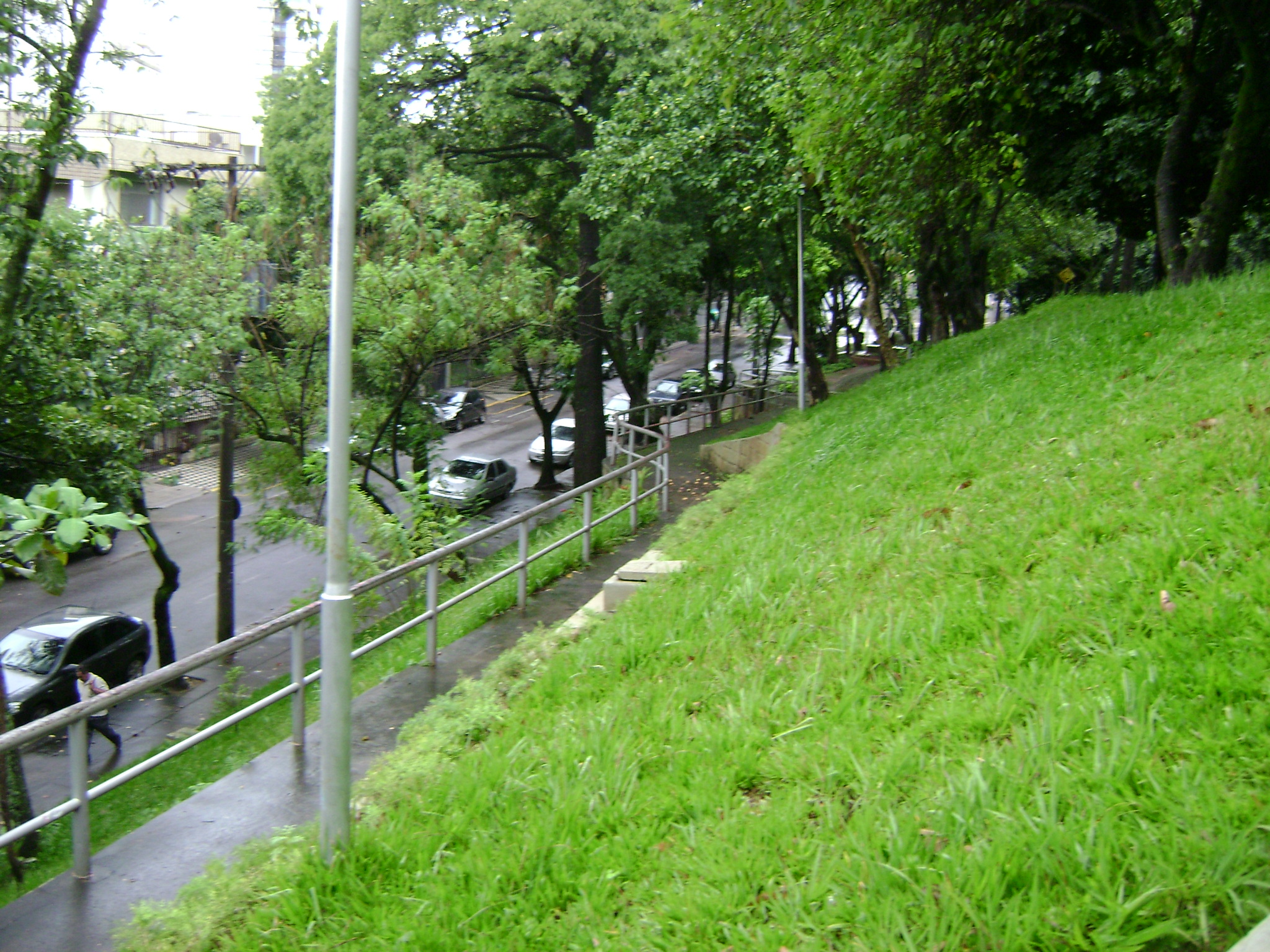 Praça Jornalista A. Reis